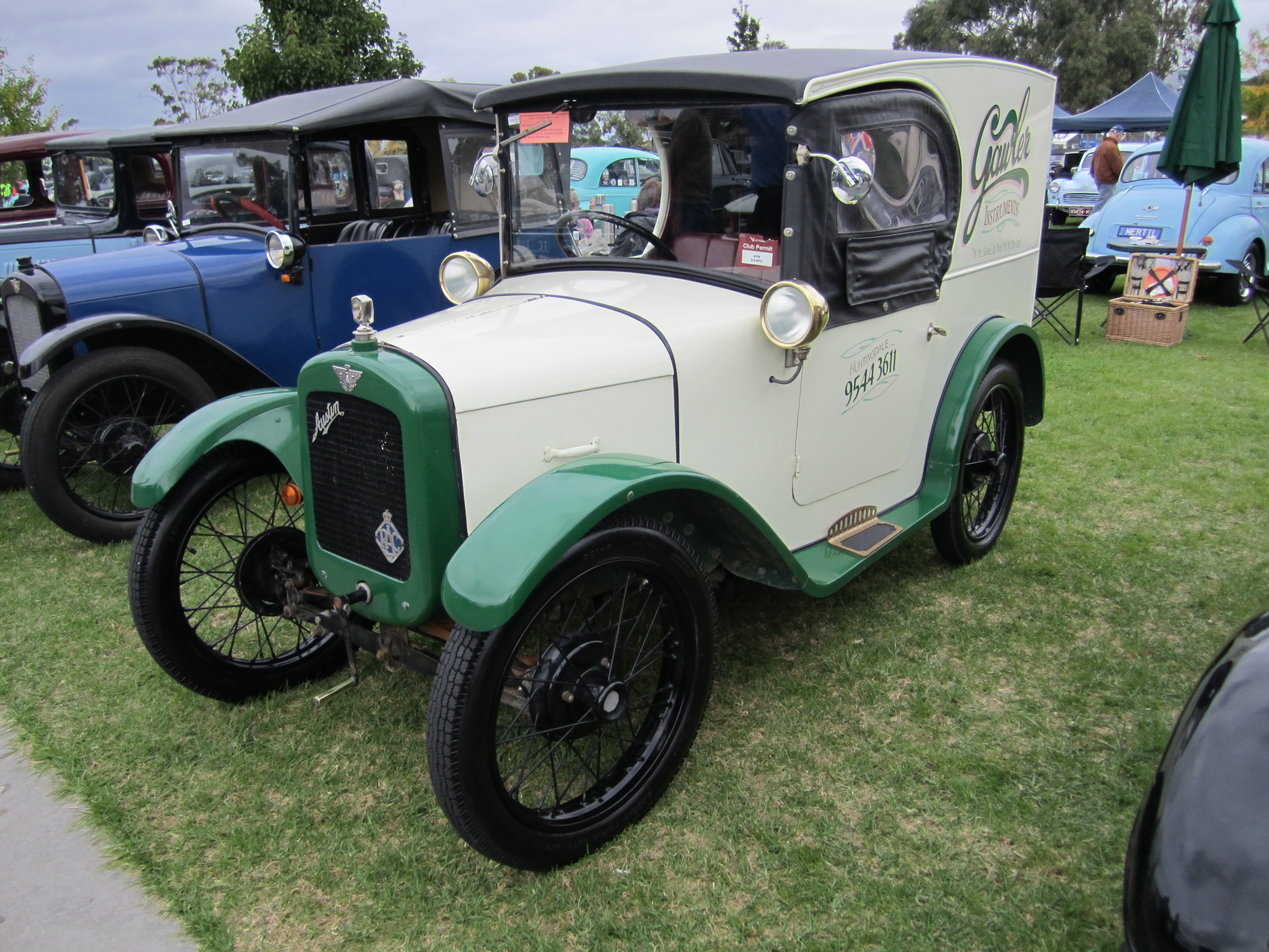 Built from 1922-39 Nicknamed the 'Baby Austin', Engine; 747cc 4 cyl